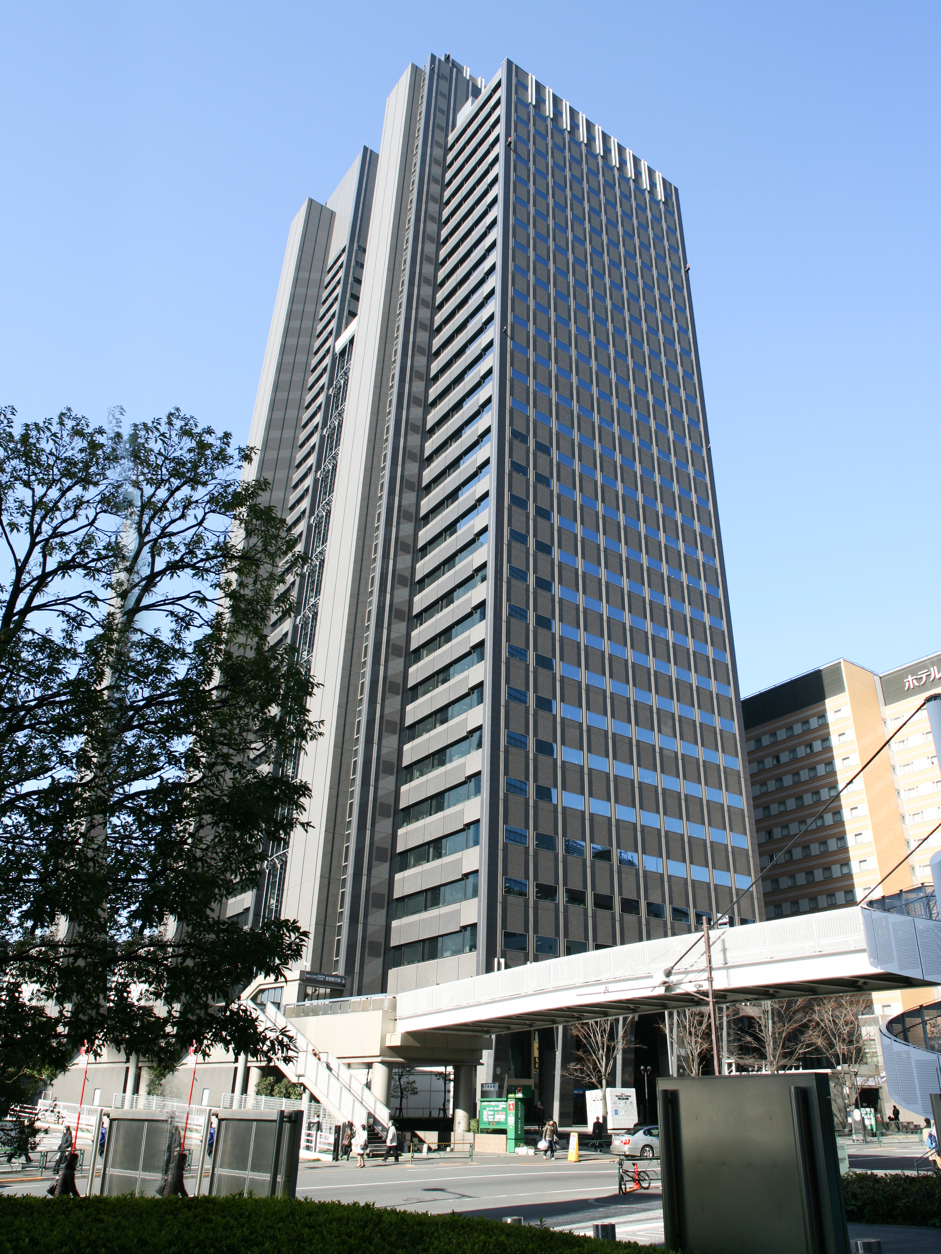 the building of sedom